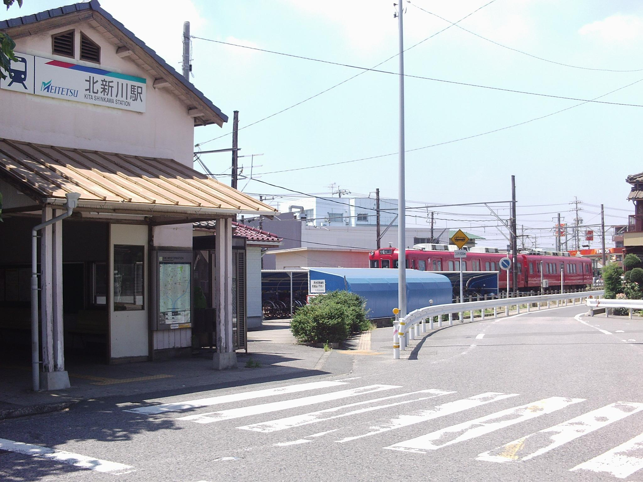 Aichi prefectural road No.475 in Kugutsumachi 4-chome, Hekinan, Aichi. Starting point, Kitashinkawa station.